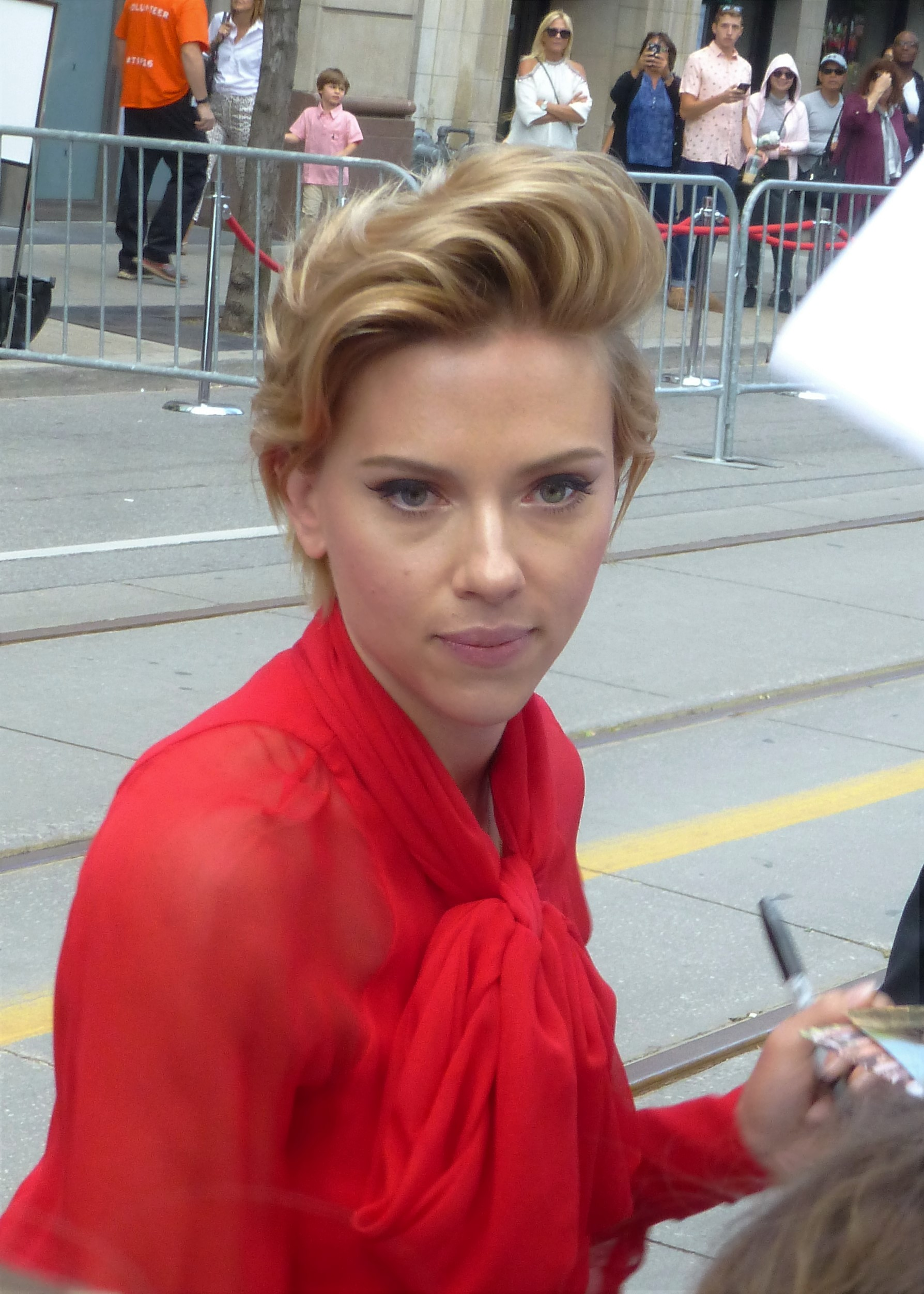 Scarlett Johansson at the premiere of Sing, 2016 Toronto Film Festival